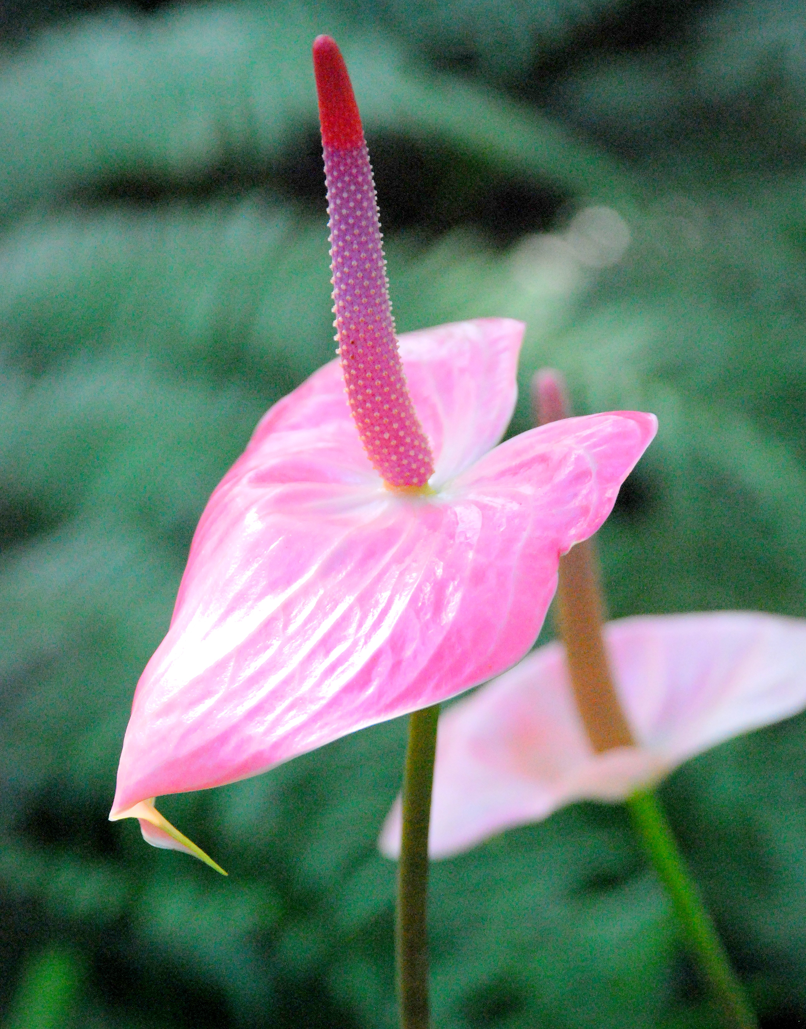 Picture of flamingo inflorescence from the United States Botanical Garden